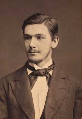 Andreas Nicolaus Kornerup (1857-1881), Danish geologist